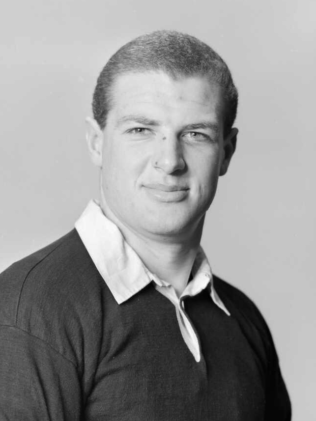 A J Stewart, All Black trialist